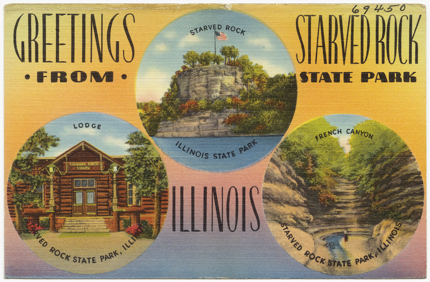 File name: 06_10_013562 Title: Greetings from Starved Rock State Park, Illinois -- Starved Rock, Lodge, French Canyon Date issued: 1930 - 1945 (approximate) Physical description: 1 print (postcard) : linen texture, color ; 3 1/2 x 5 1/2 in. Genre: Postcards Subject: Parks; Hotels Notes: Title from item. Collection: The Tichnor Brothers Collection Location: Boston Public Library, Print Department Rights: No known restrictions